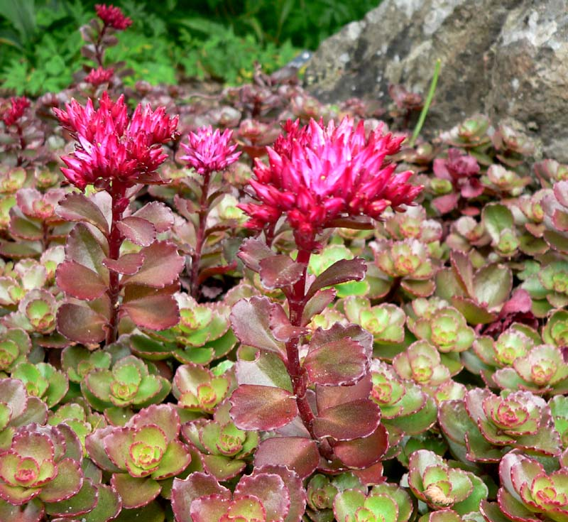 Photo of Sedum spurium 'Purpurteppich' at the UBC Botanical Garden